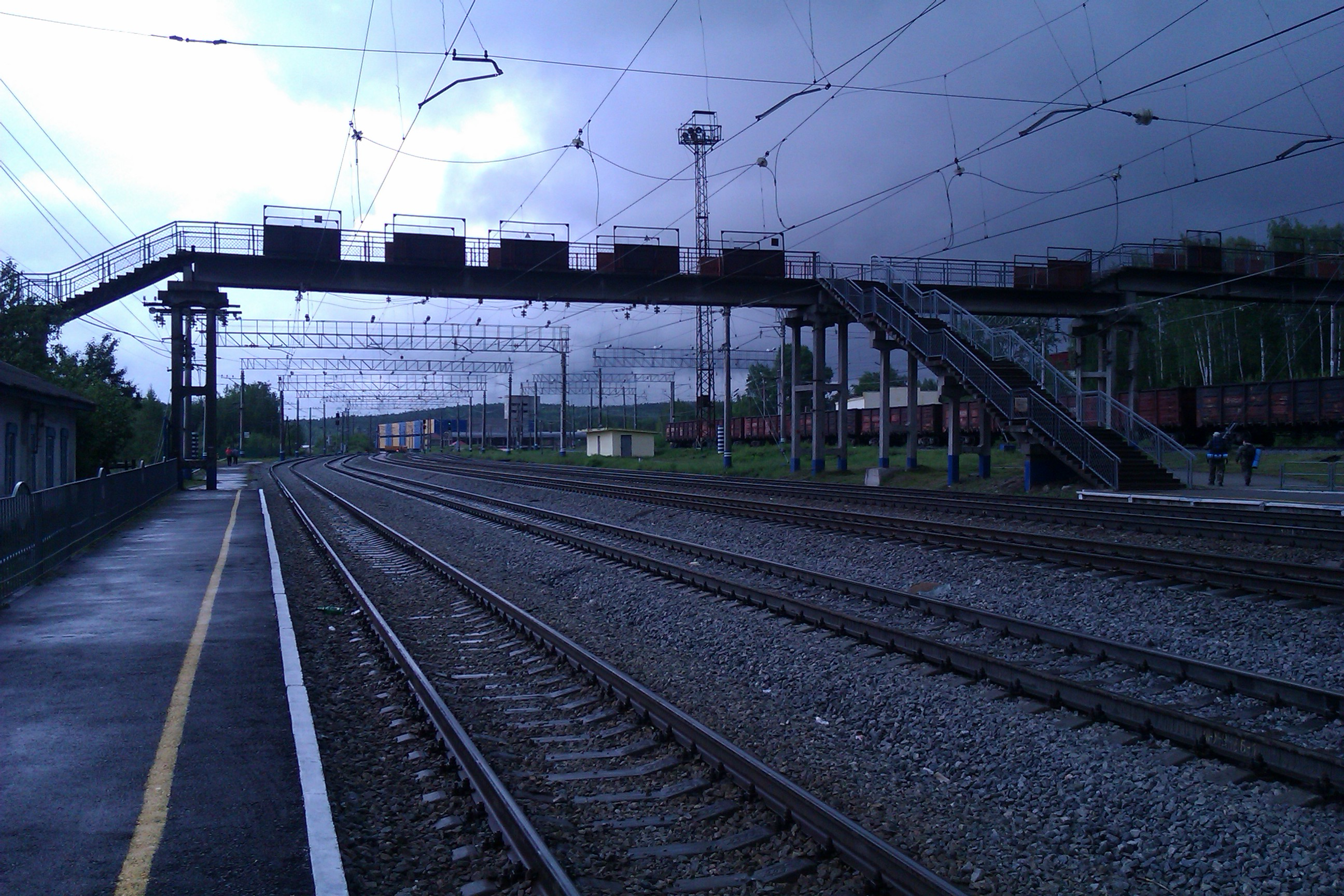 Iset railway station